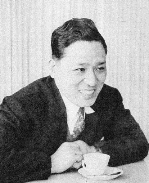 Tetsuji Takechi